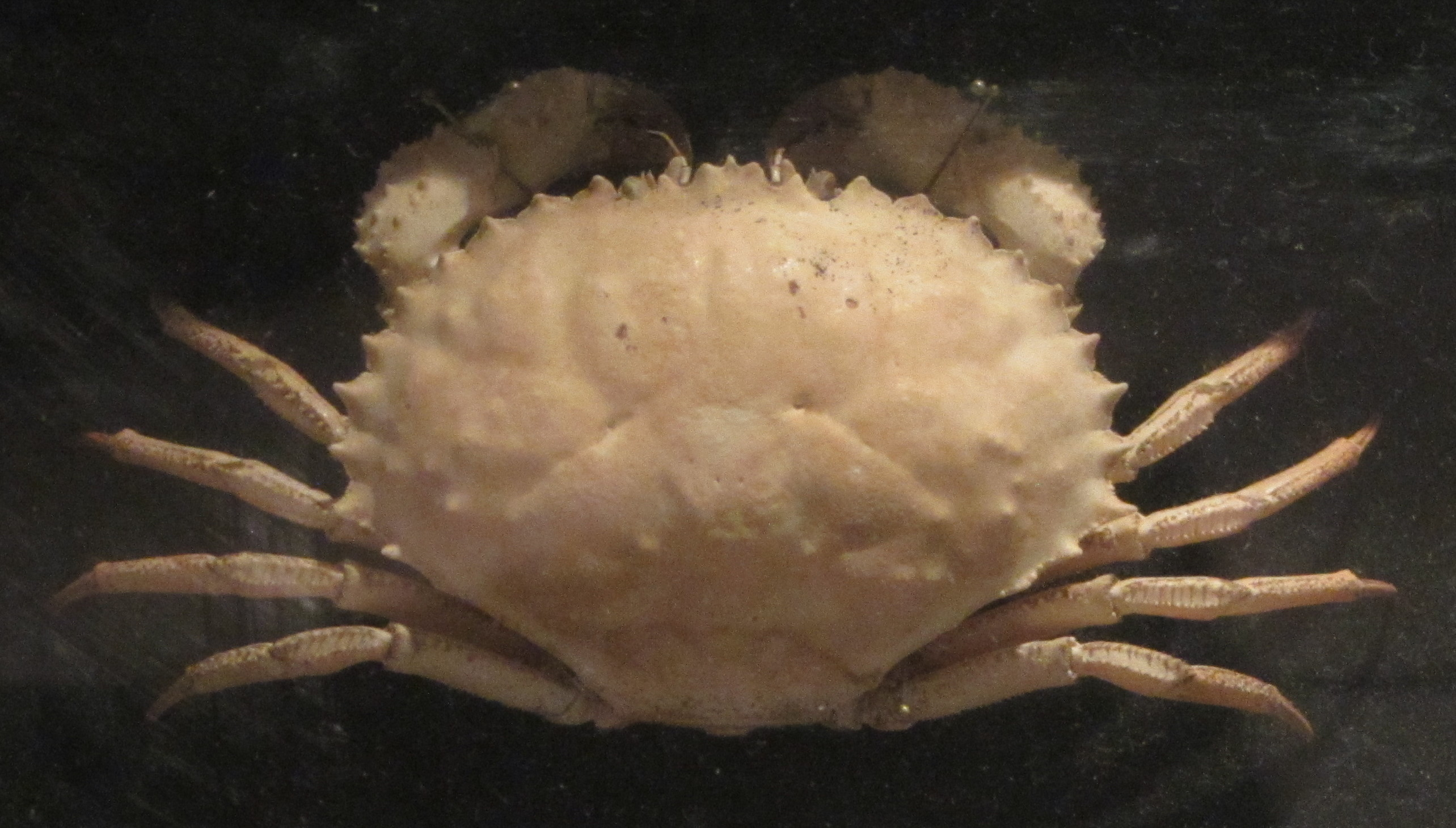 Specimen of Cancer gibbulosus in National Museum of Natural Science in Taiwan